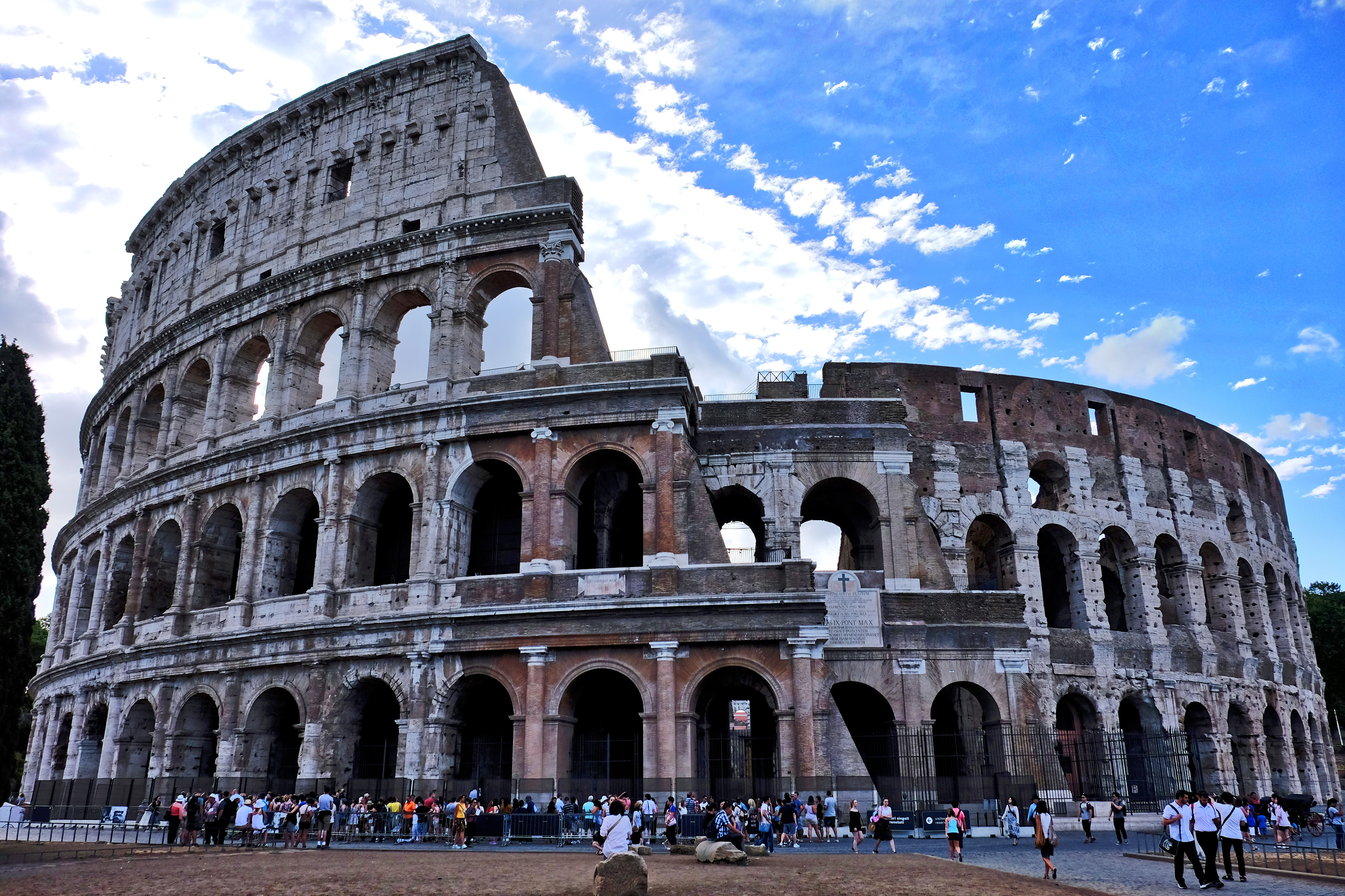 The famous Roman Colosseum in Rome, Italy